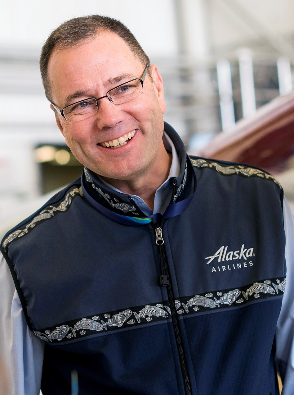 Alaska Airlines CEO Brad Tilden talking to attendees at the 2017 Aviation Day in Alaska's Sea-Tac Hangar. Photographed by Ingrid Barrentine on May 6, 2017.